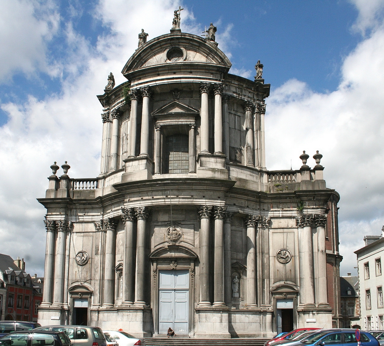 Namur (Belgium), the St. Aubin's Cathedral (1751-1767).